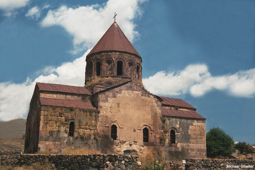 St Thaddeus Church in Ddmashen